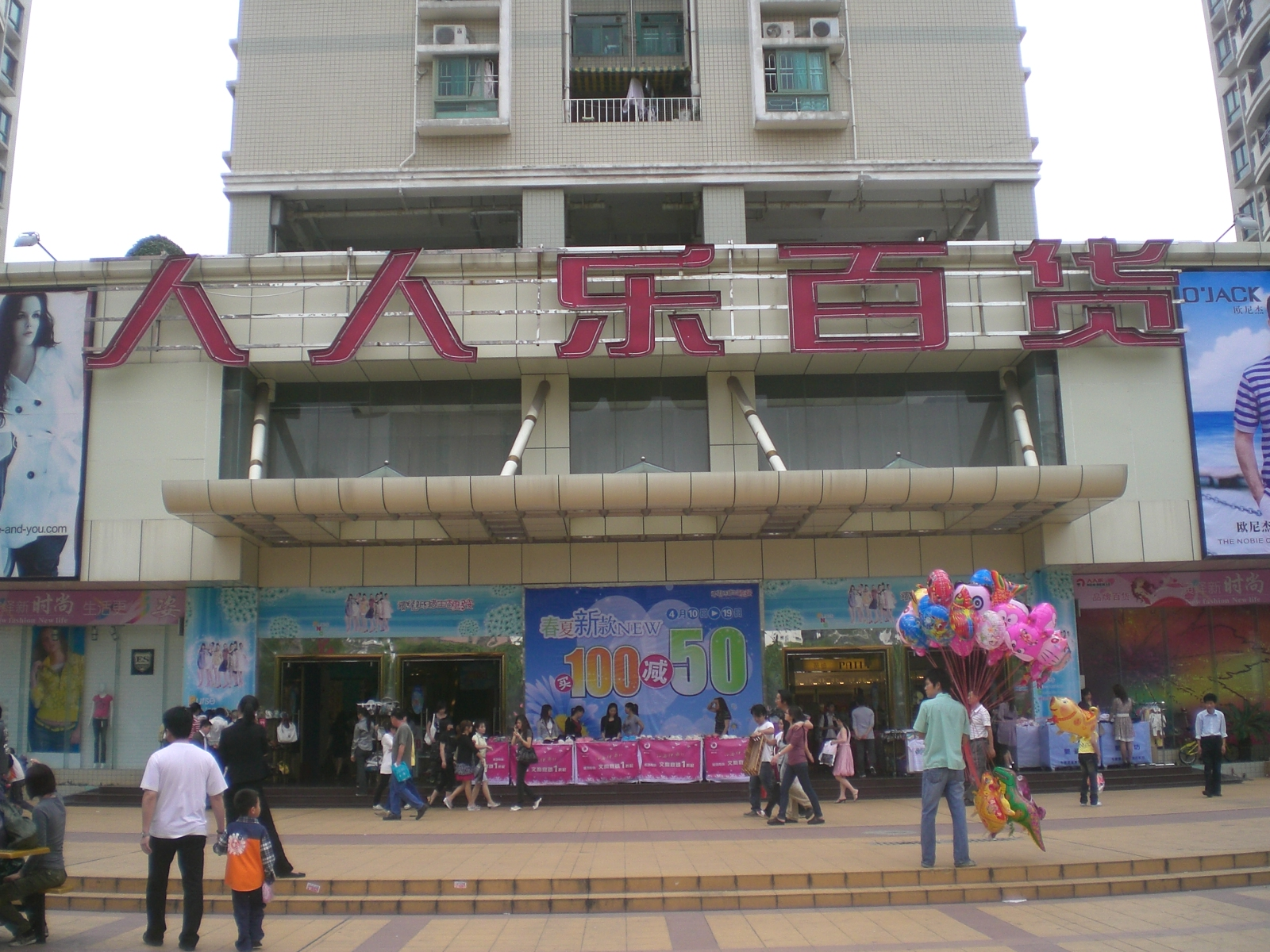 深圳街景 - 立面 福田區 多層大廈 步行街 私人屋苑 人人樂百貨超市 攤販 遊人